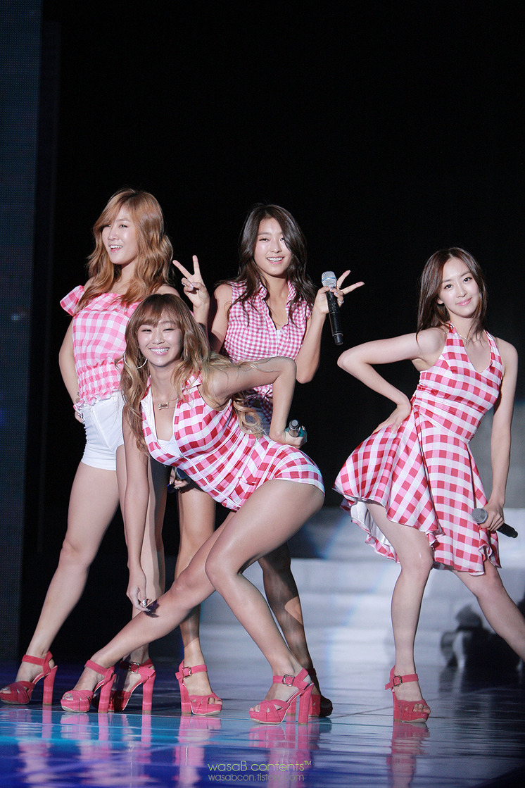 2012 SAC Festival at Sistar